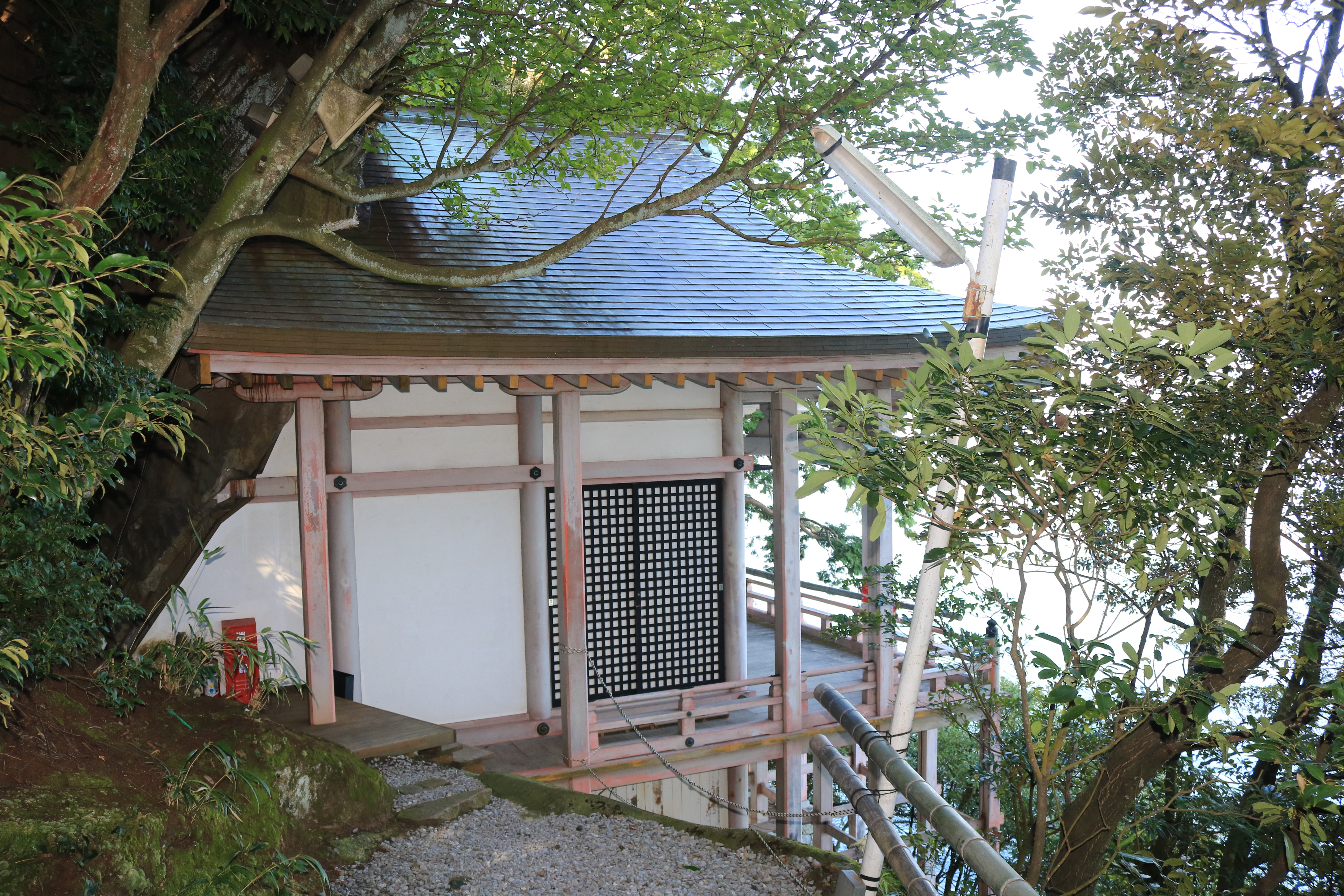 Saotobido of Isaki-ji, buddhist temple of Tiantai, in Ōmihachiman, Shiga prefecture, Japan.